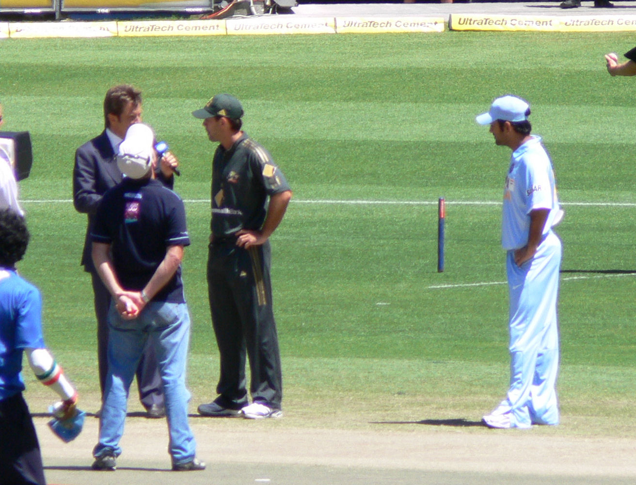 Cropped: Ponting and Dhoni during toss V India ODI 4th ODI Feb 10 2008 at the MCG.